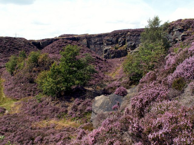 Holybank Quarry Tintwistle, near to Tintwistle, Derbyshire, Great Britain. The proposed Tintwistle bypass will come through here. What a shame!